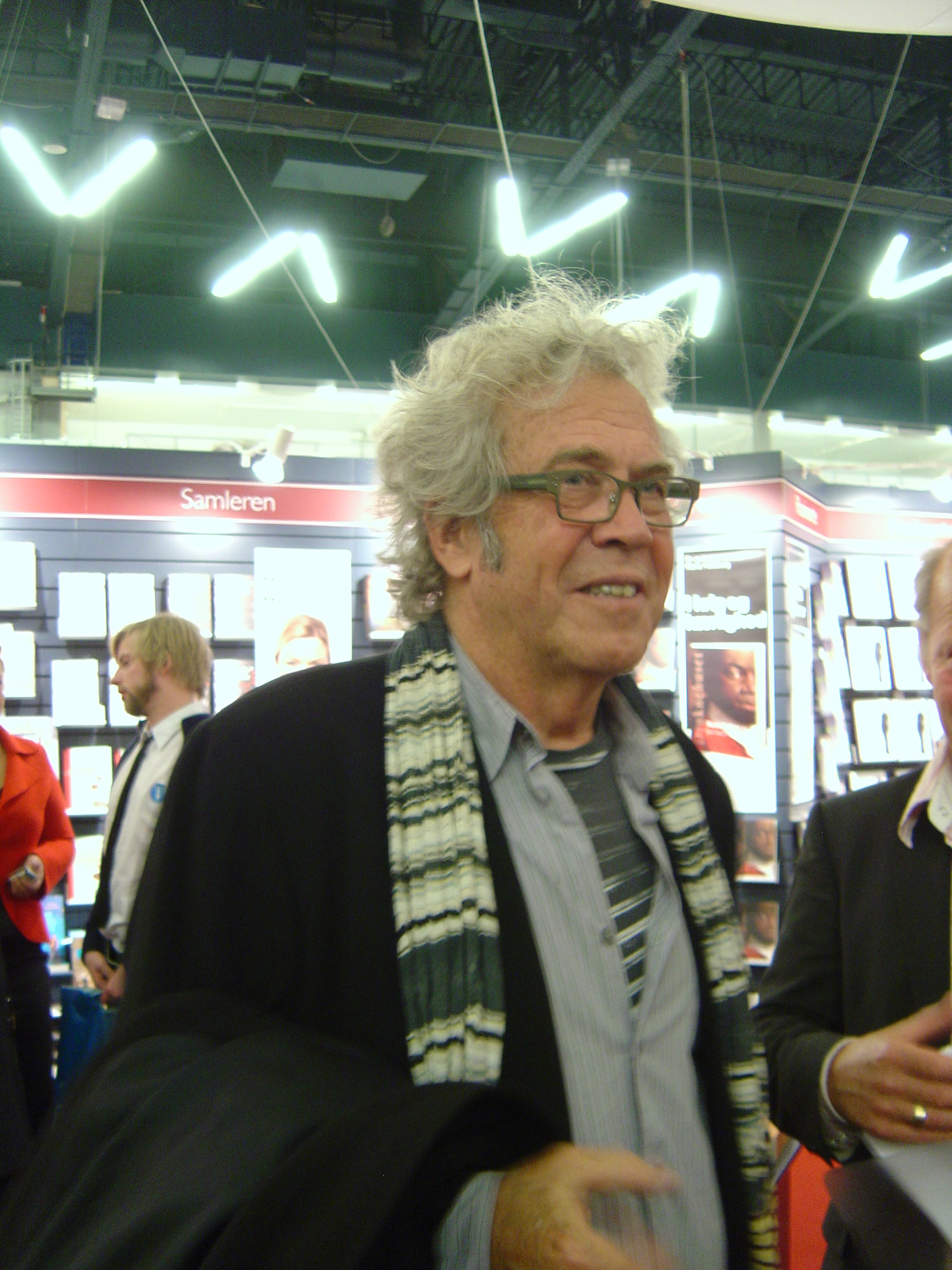 Jørgen Leth - a danish journalist, writer and director on 16 November 2008 attending the annual Danish book fair, BogForum (November 14-16, 2008), in Forum Copenhagen.